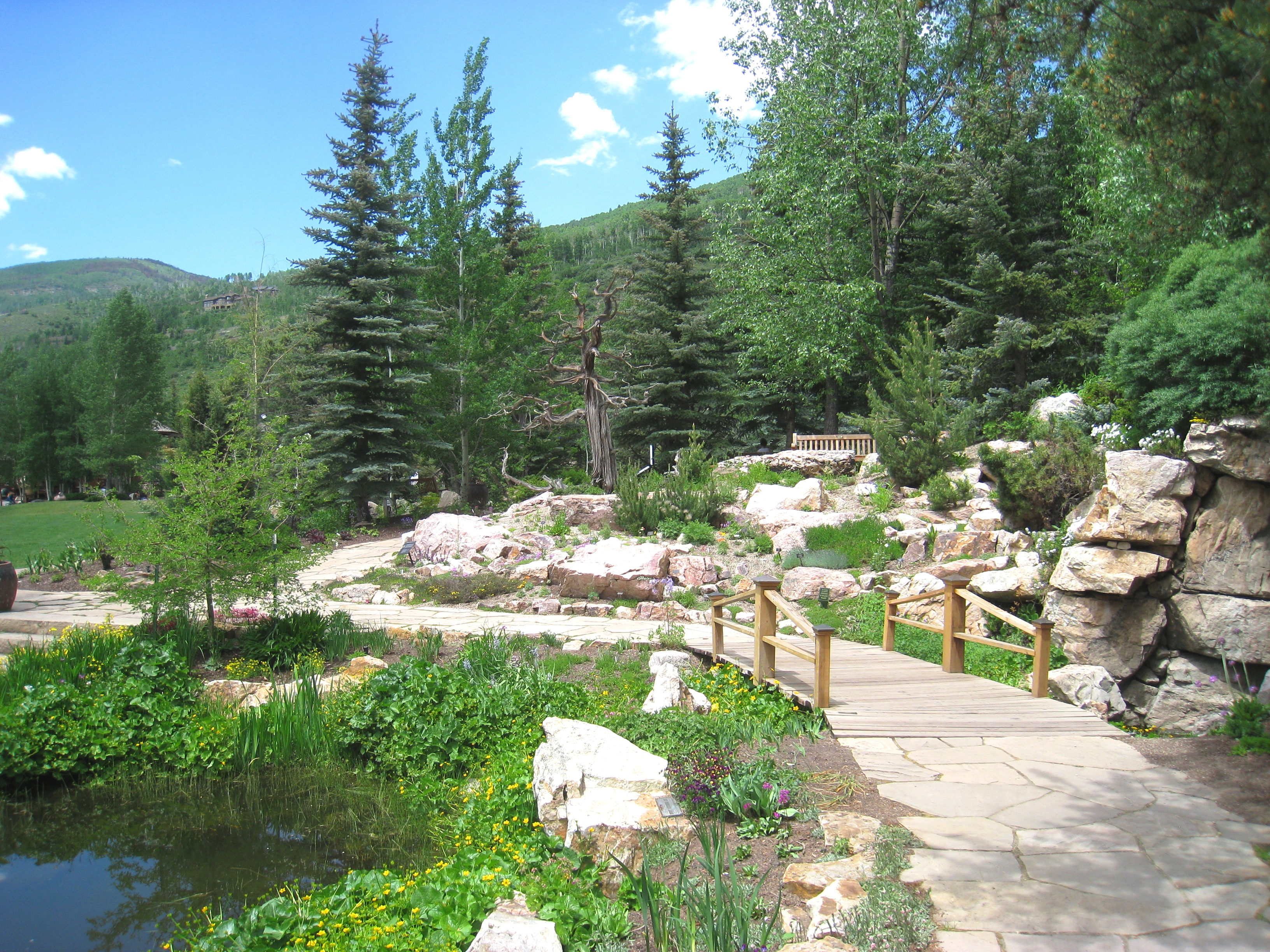 Betty Ford Alpine Gardens, Vail, Colorado, USA. General view in late June.